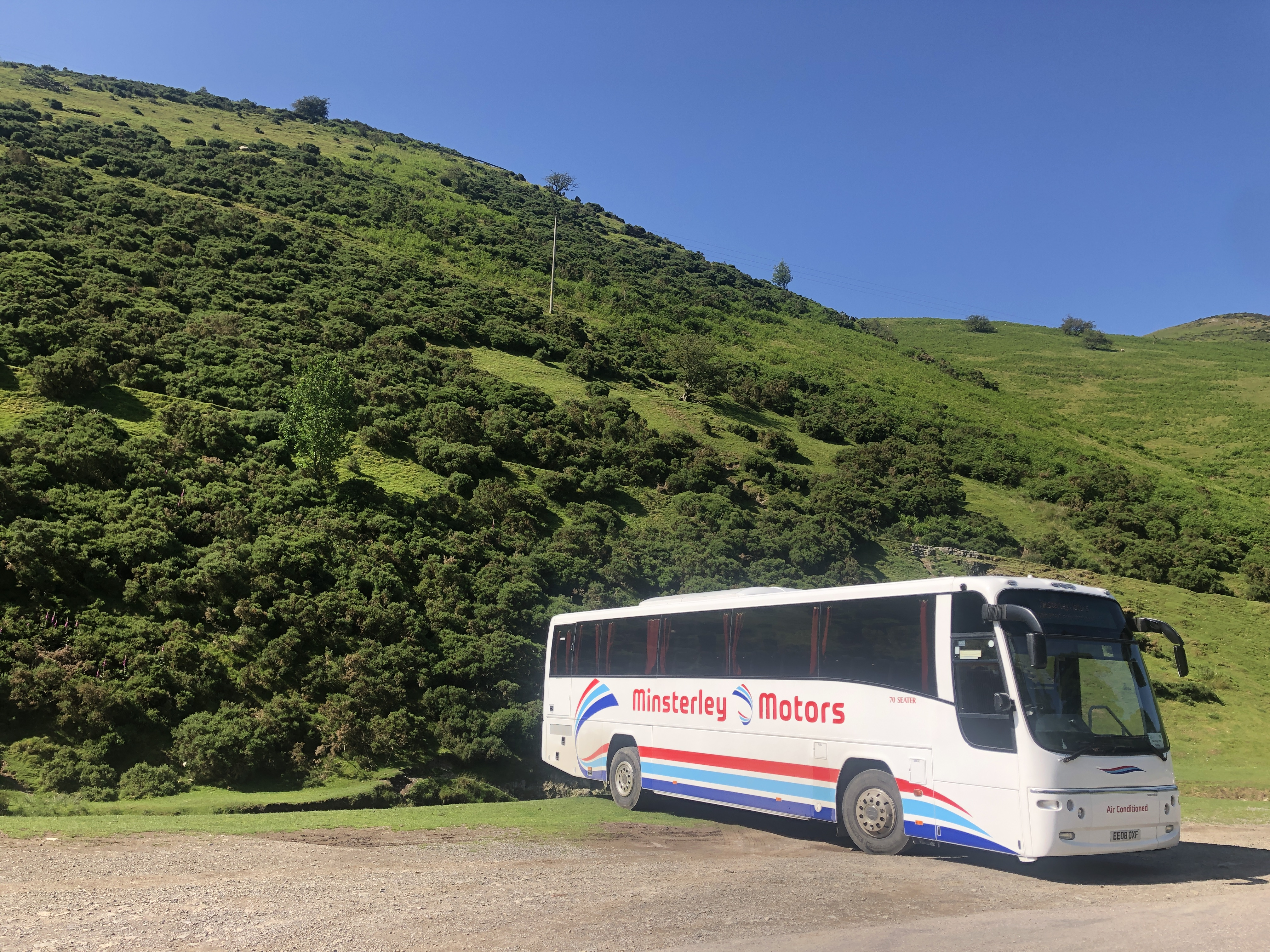 Minsterley Motors EE08 OXF a Plaxton Panther bodied Volvo B12M stands at Carding Mill Valley on Thursday 27th June 2019.